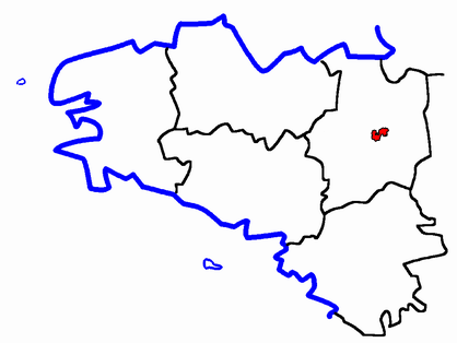 Map for localisazion of cantons of Pays-de-Loire, region in France